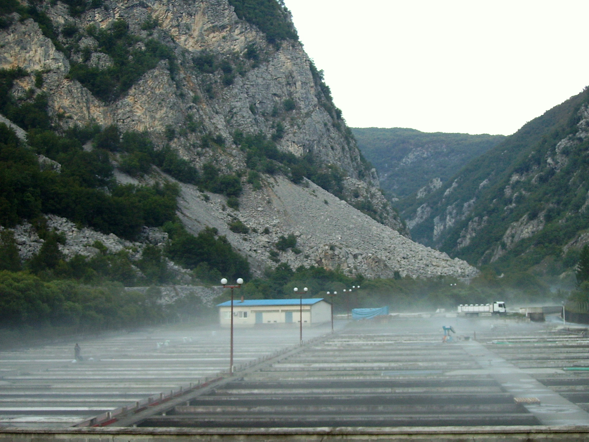 Large Aquaculture facility in Martin Bord, West Bosnia.